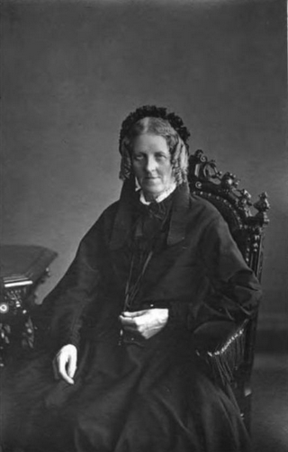 Anne Mackenzie, in 1872, from an 1878 publication.